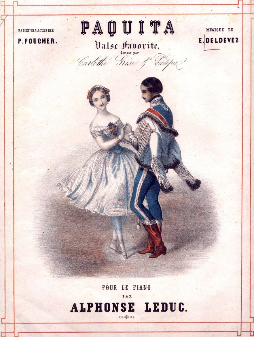 Frontispiece of a published piano reduction (sheet music) of the composer Edouard Deldevez's (1817-1897) Valse favorite from the 1846 ballet Paquita.